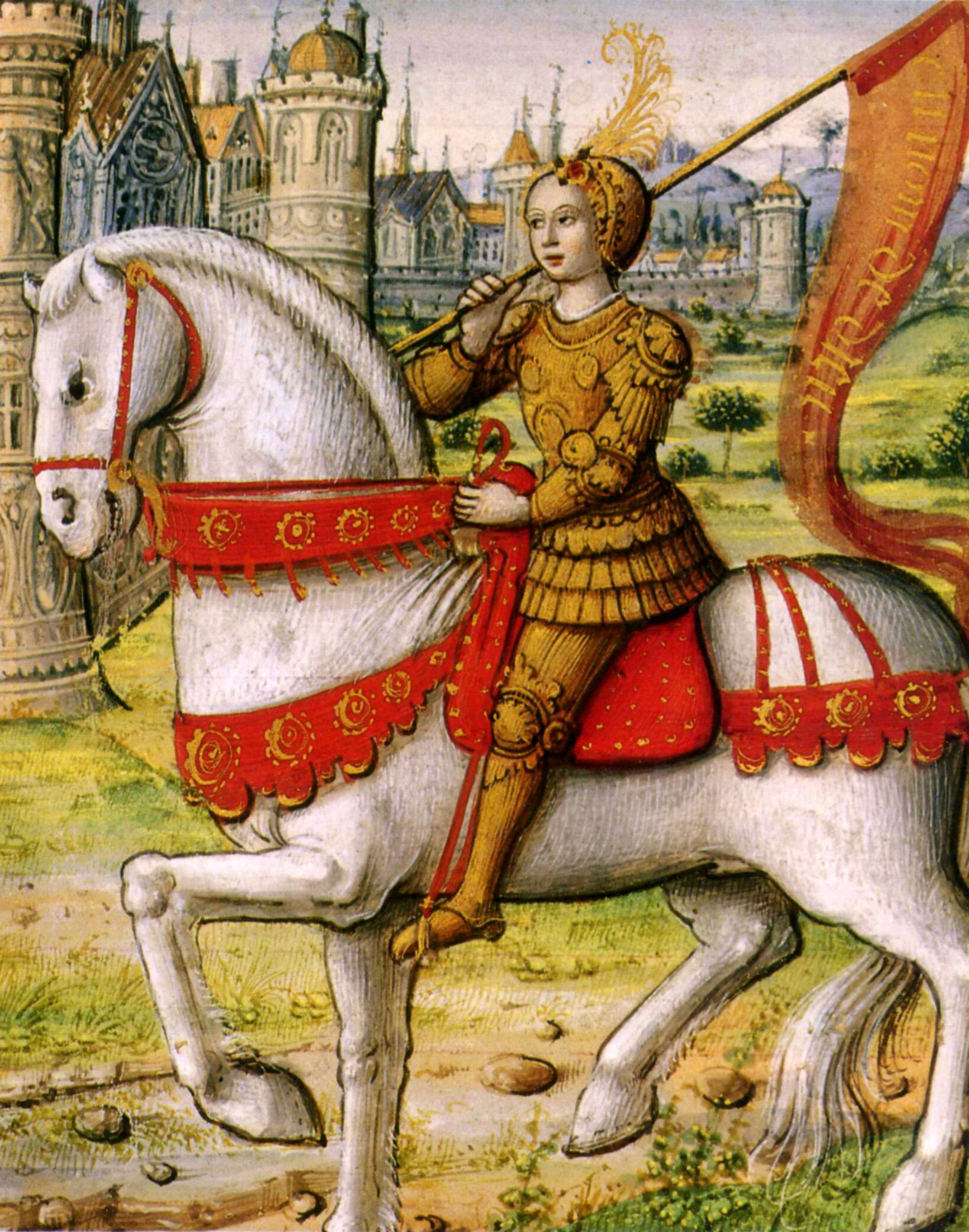 Joan of Arc depicted on horseback in an illustration from a 1504 manuscript.